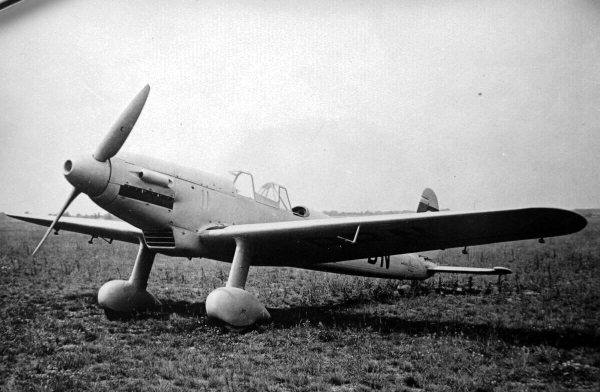 Arado Ar80V-2